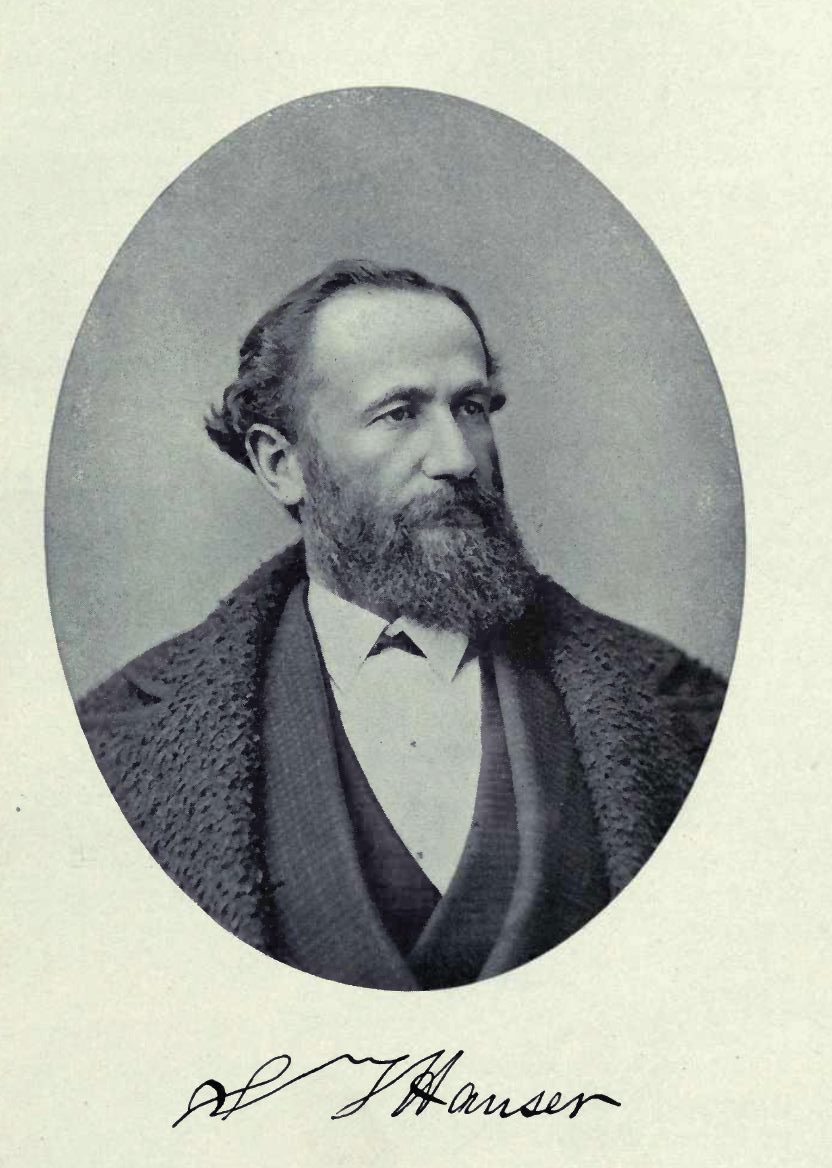 Portrait of Samuel T. Hauser, circsa 1870 from The Discovery of Yellowstone Park (1870) by Nathaniel Pitt Langford, 1905